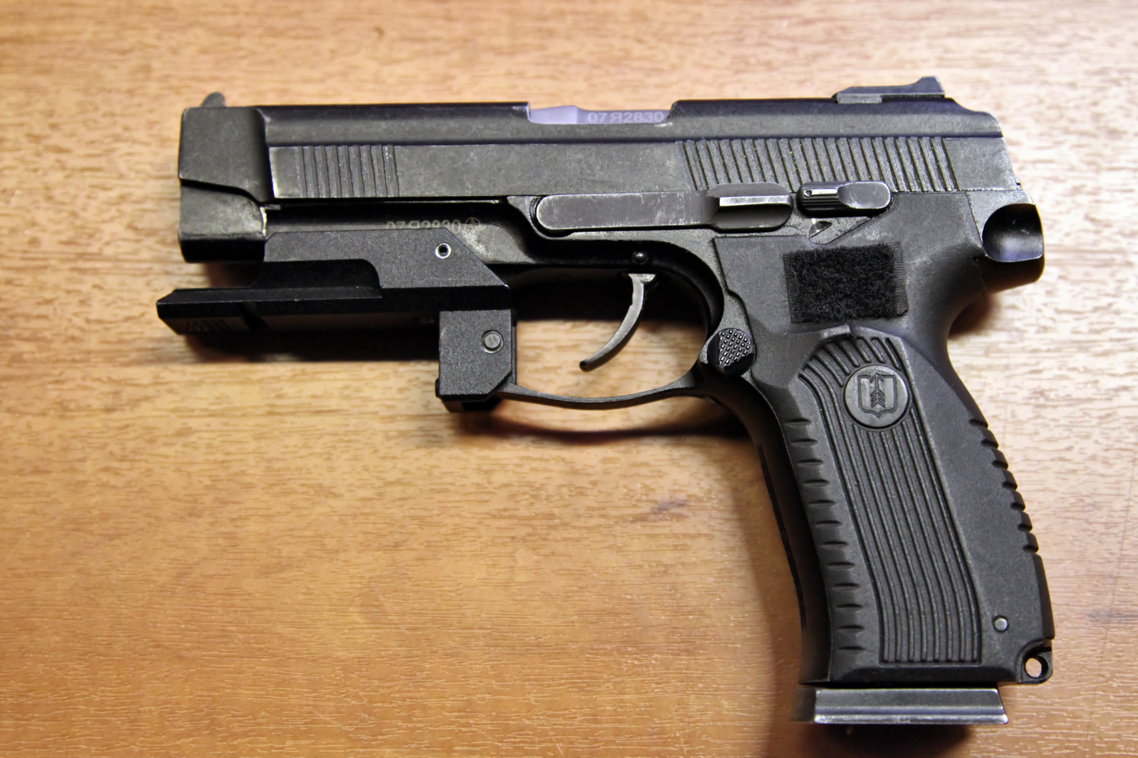 PYa Yarigin pistol - Moscow OMON